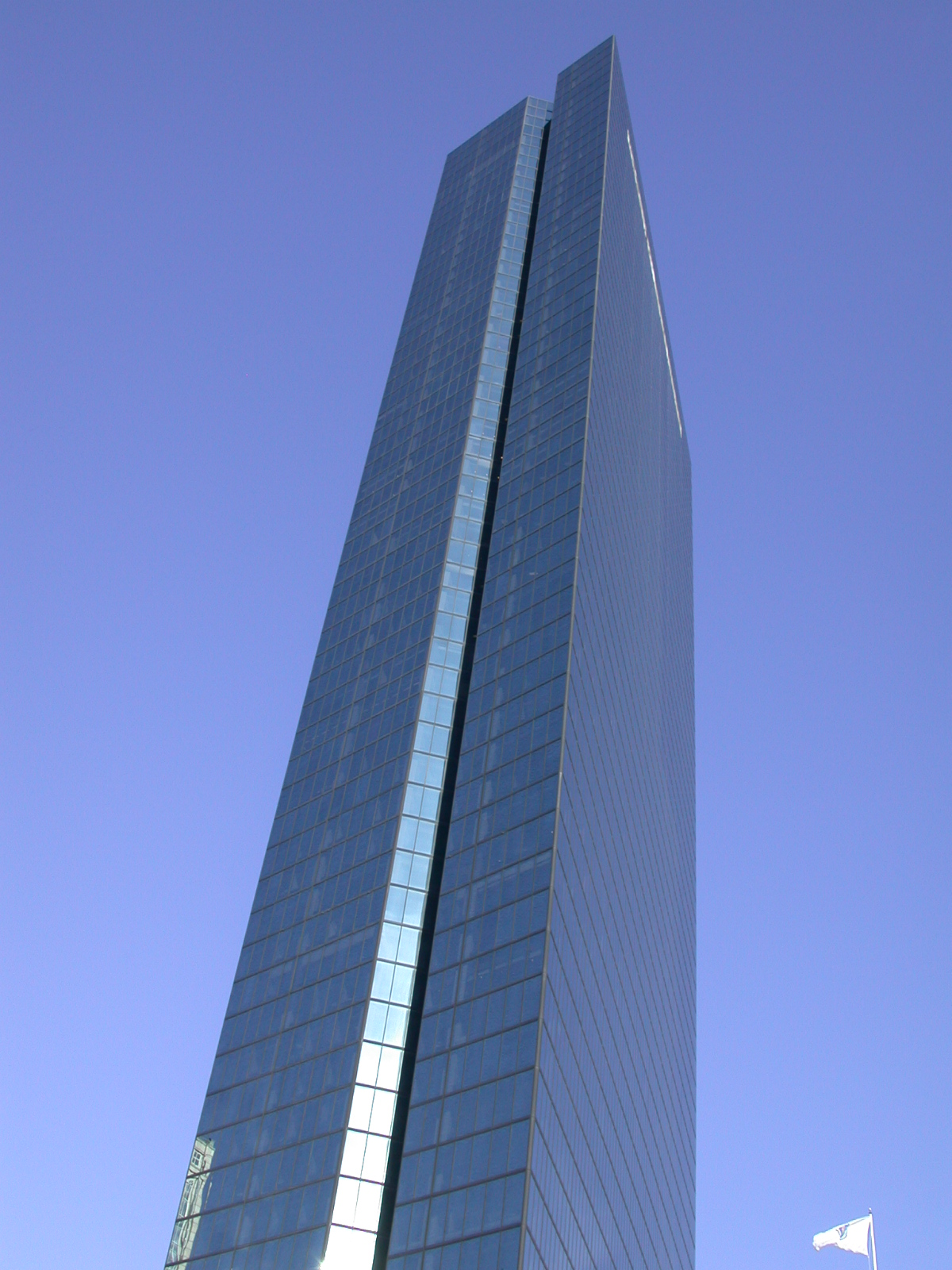 John Hancock Tower in Boston, Massachusetts, 2003